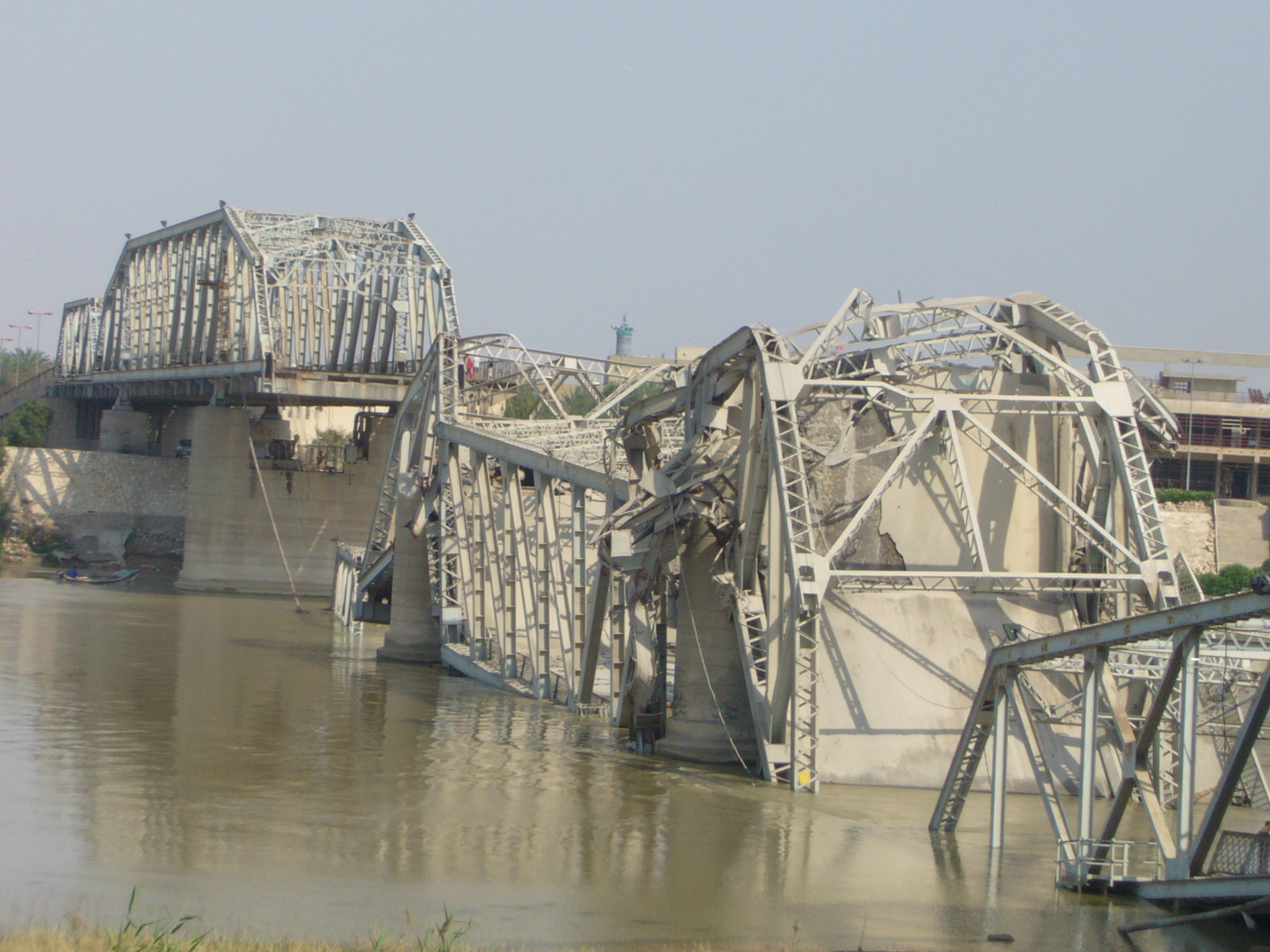 Al-Sarafiya bridge, destroyed as a result of an explosion caused by a car bomb